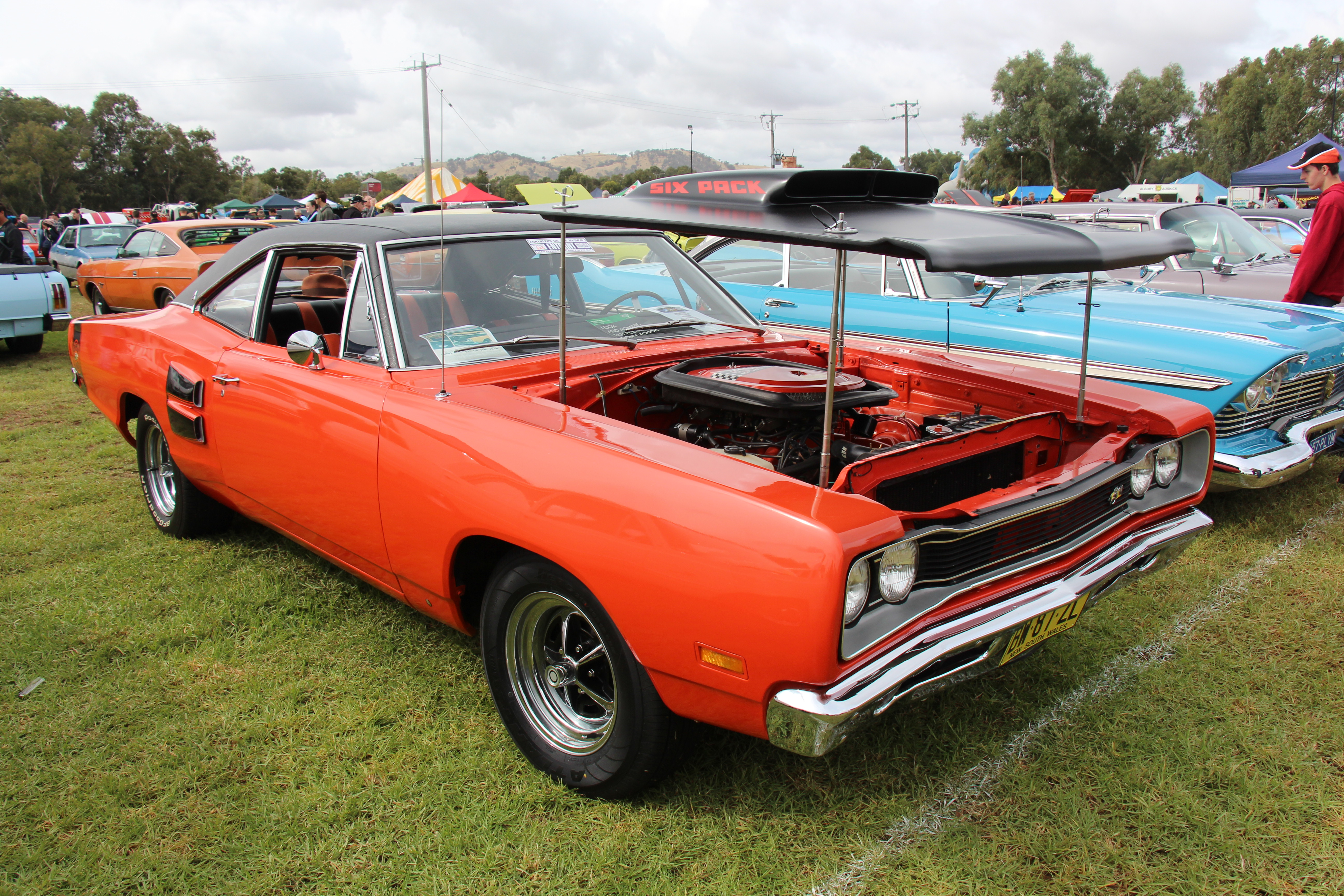 The Dodge Super Bee, Dodges answer to Plymouths Road Runner, were available from 1968-71,aimed at the younger market, they were based on the Coronet, but only available in 2 door, they were cheap with basic trim but big on horsepower. They got Bumble Bee tail stripe and diecast chrome plated Bumble Bee medallions in the grille and on the trunk lid. In mid-1969, the A12 package was introduced on the Super Bee. It included a 390 hp 440 with three 2bbl Holley carburetors on an aluminum intake manifold, a black fiberglass lift-off hood secured with metal pins, heavy-duty suspension and steel wheels with no hubcaps or wheel covers. The hood had an integrated forward-facing scoop which sealed to the air cleaner assembly. Six Pack being the name used for the 6-bbl induction setup when installed on a Dodge (Plymouth went with 440 6bbl on the A12 Road Runners).